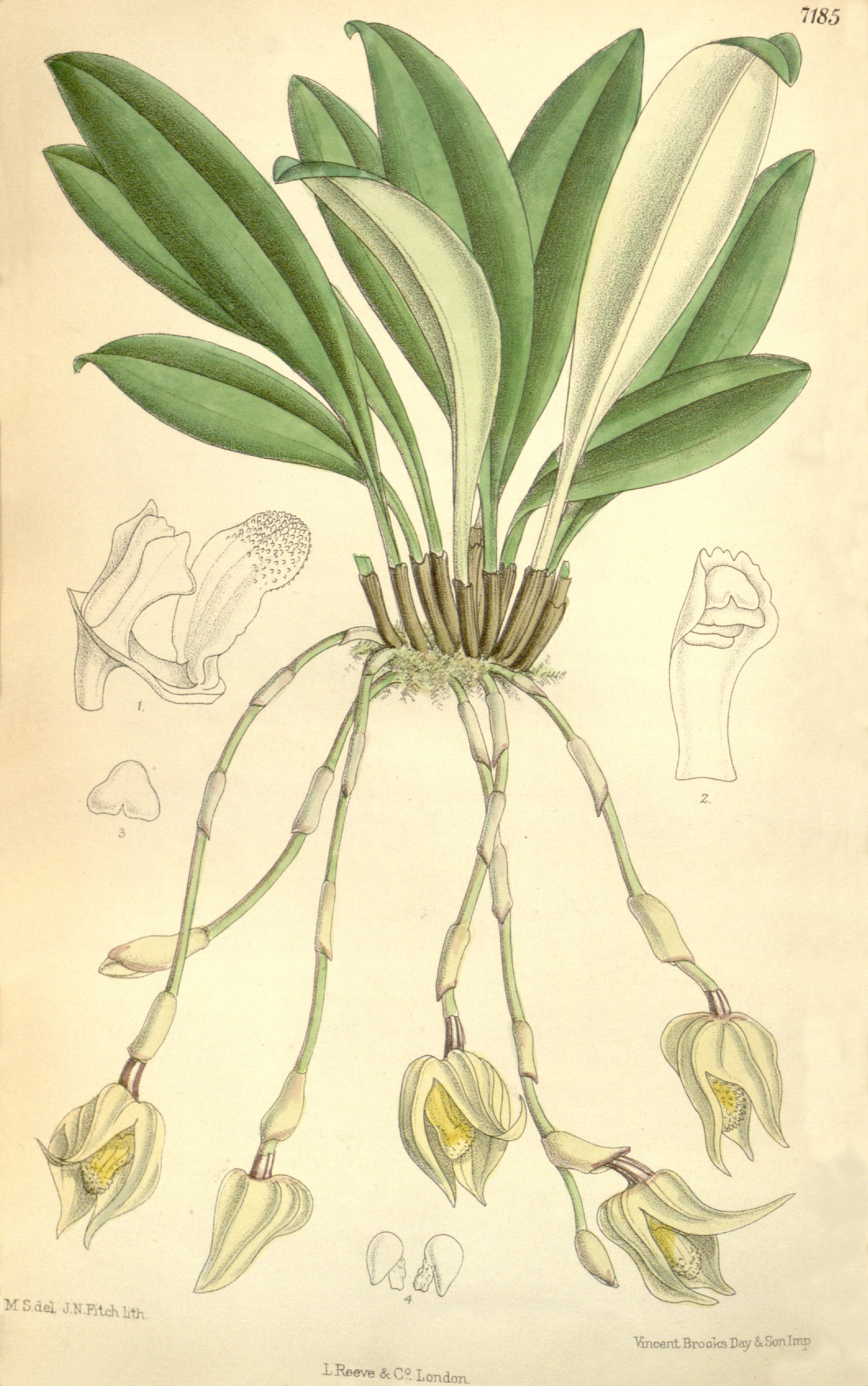 Illustration of Masdevallia platyglossa